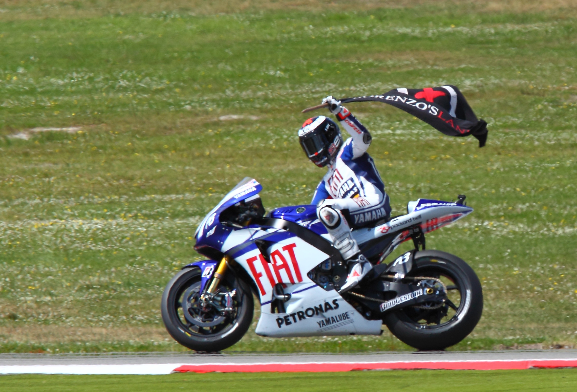 Jorge Lorenzo, riding his FIAT Yamaha, celebrating his victory at the 2010 Dutch TT in Assen.